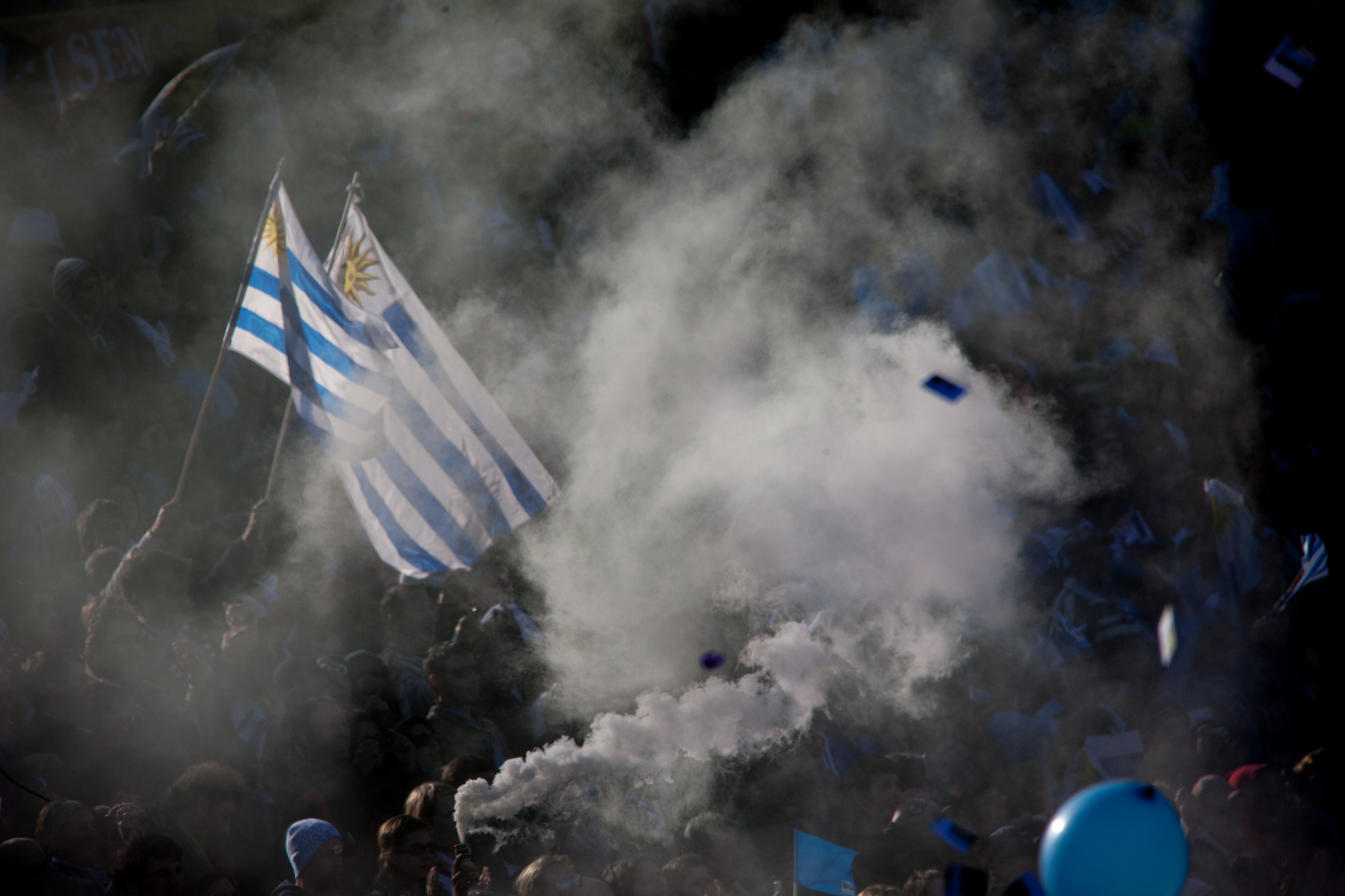 Flags in the game between Venezuela and Urugay , June 2012. Estadio Centenario, Montevideo, Uruguay.